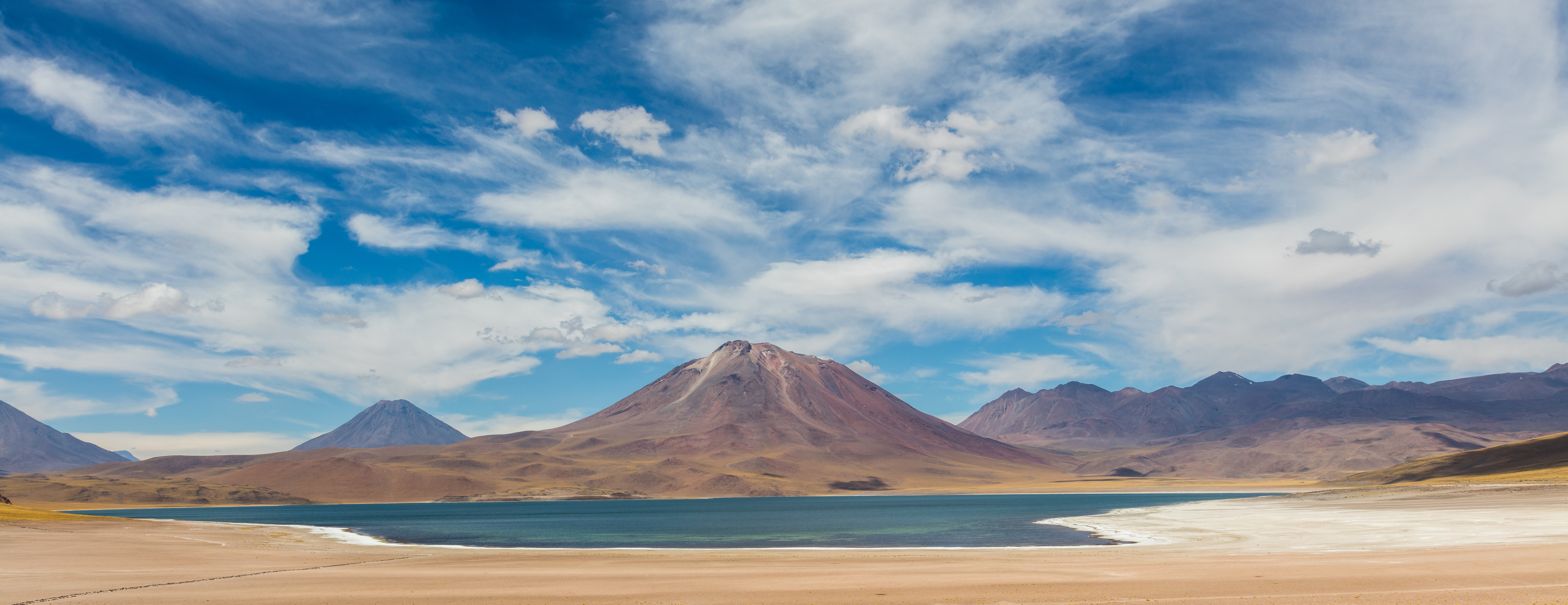 Miscanti lake, Chile